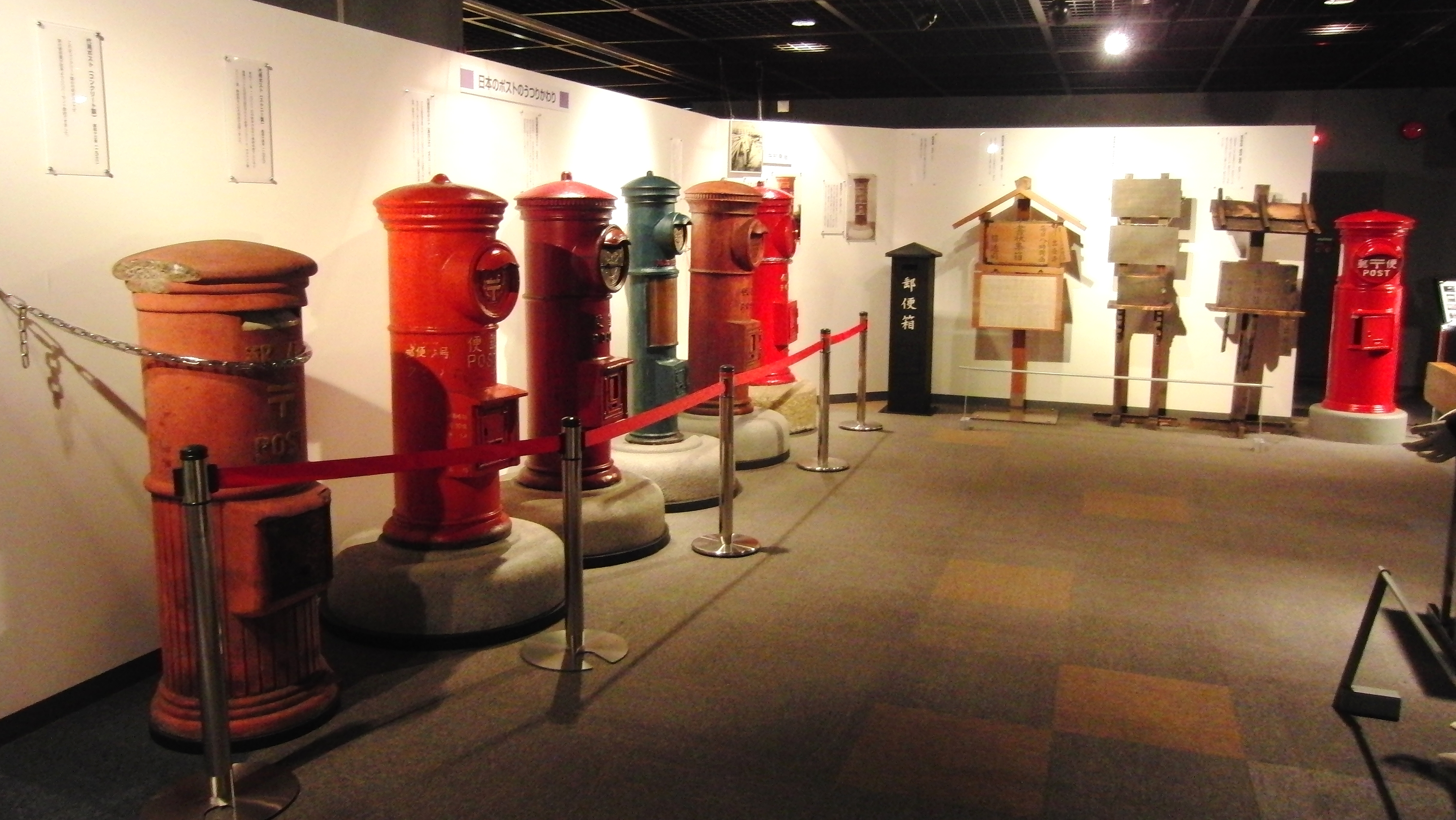 History of post boxes of Japan. Exhibits in the Communications Museum, Tokyo.